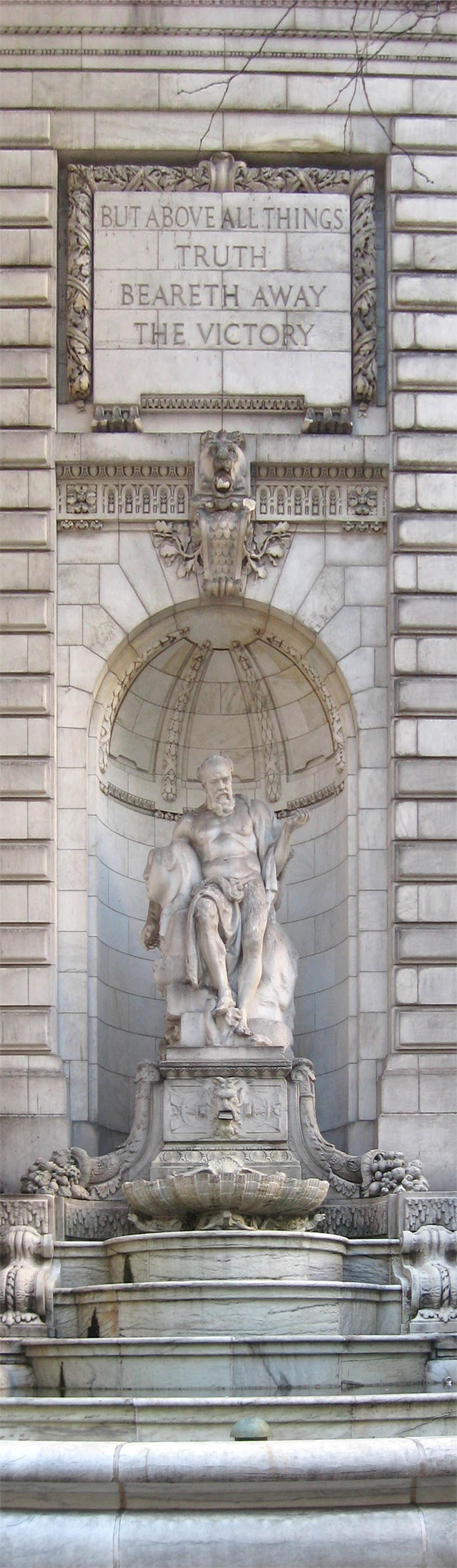 Looking up and west at fountain statue and inscription flanking the north side of main entrance of New York Public Library on a cloudy afternoon. See File:NYPL Beauty jeh.JPG for south side.